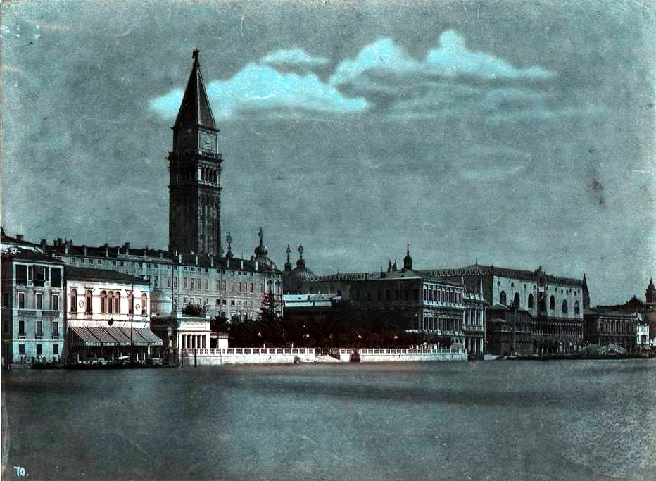 Carlo Naya (1822-1881) - Venice by night (Napoleon's gardens, catalogue number: 70). The image was actually taken by day (a "sunlight" version of it exists) then printed with a thick blue hue to create the "night effect", then retouched with gouache colours.